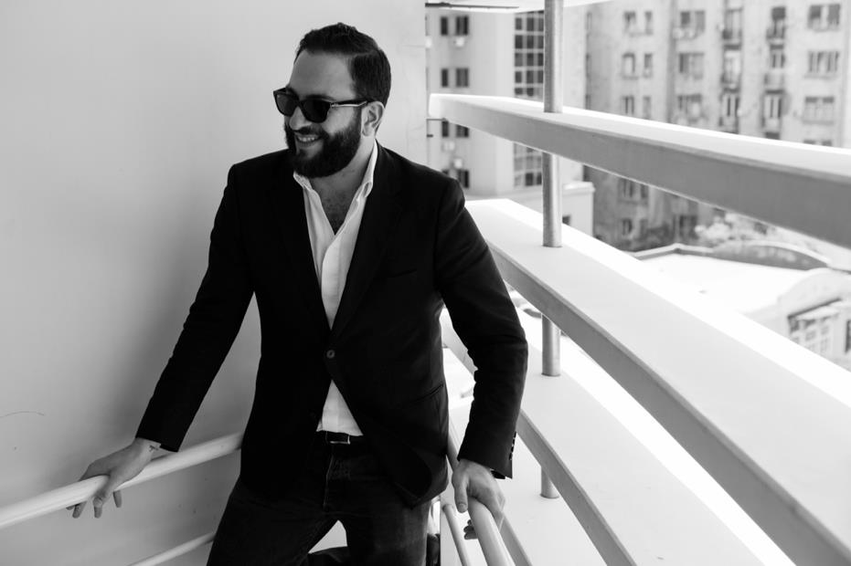 Nasri Atallah at the Keeward Office in Beirut.